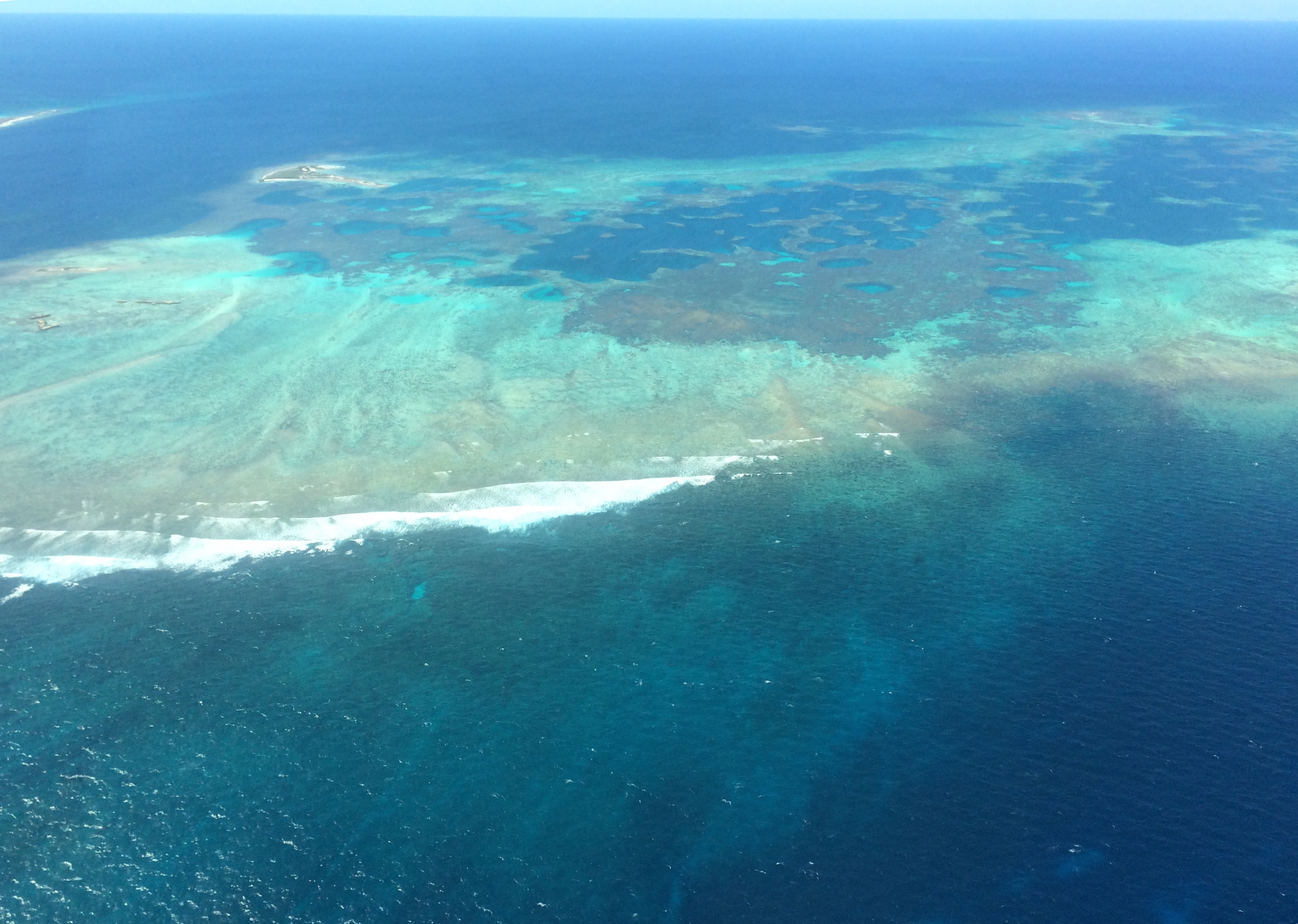 Morning Reef, Abrolhos Islands, WA. The little blue spot slightly left of the middle marks the hole in the reef where Batavia ran aground.